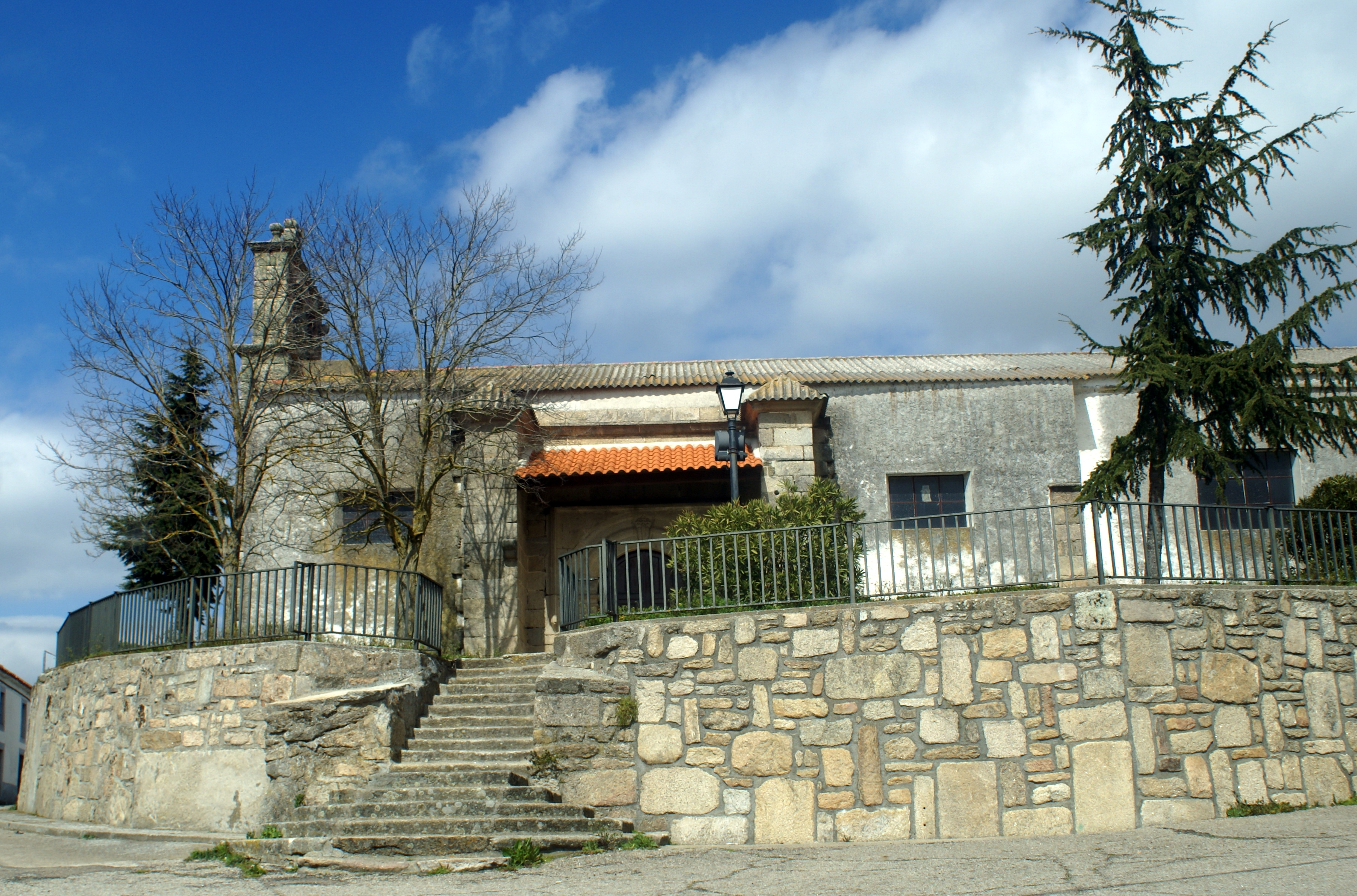 Church of Peralejos de Abajo, Salamanca, Spain.